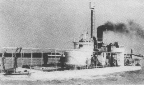 SMS Maros Austro-Hungarian monitor